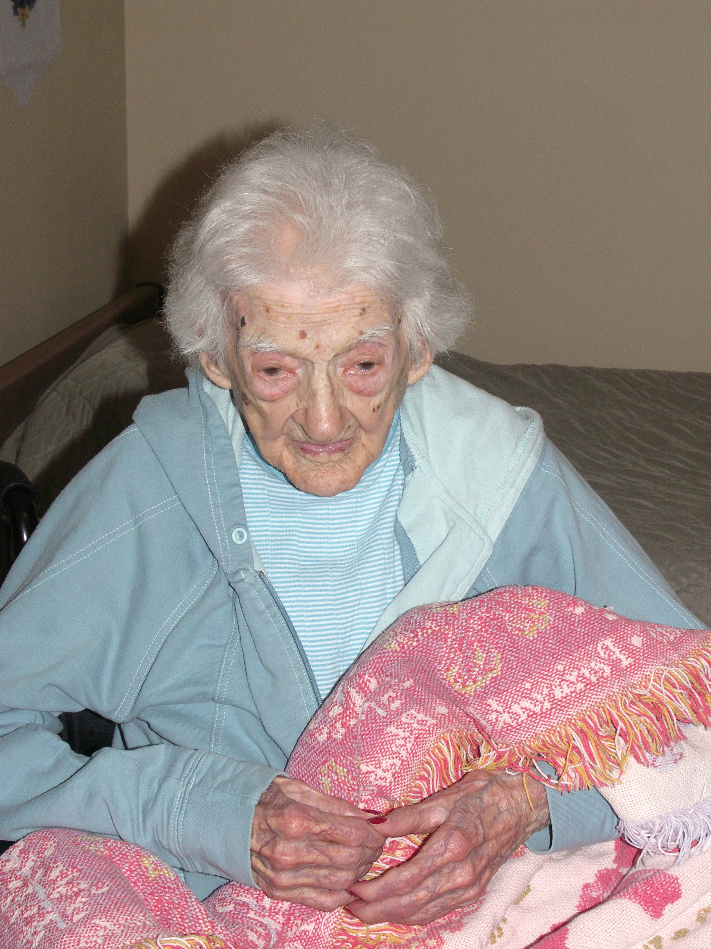 Mrs. Edna Parker. Taken today, August 28th, 2007, in Shelbyville, Indiana, by Douglas Huntley. Edna is a very sweet, lovely yet delicate lady with whom I sincerely enjoyed spending some of the afternoon with today. While she liked the planter I brought her, she was more interested in the large Teddy Bear someone had left her.